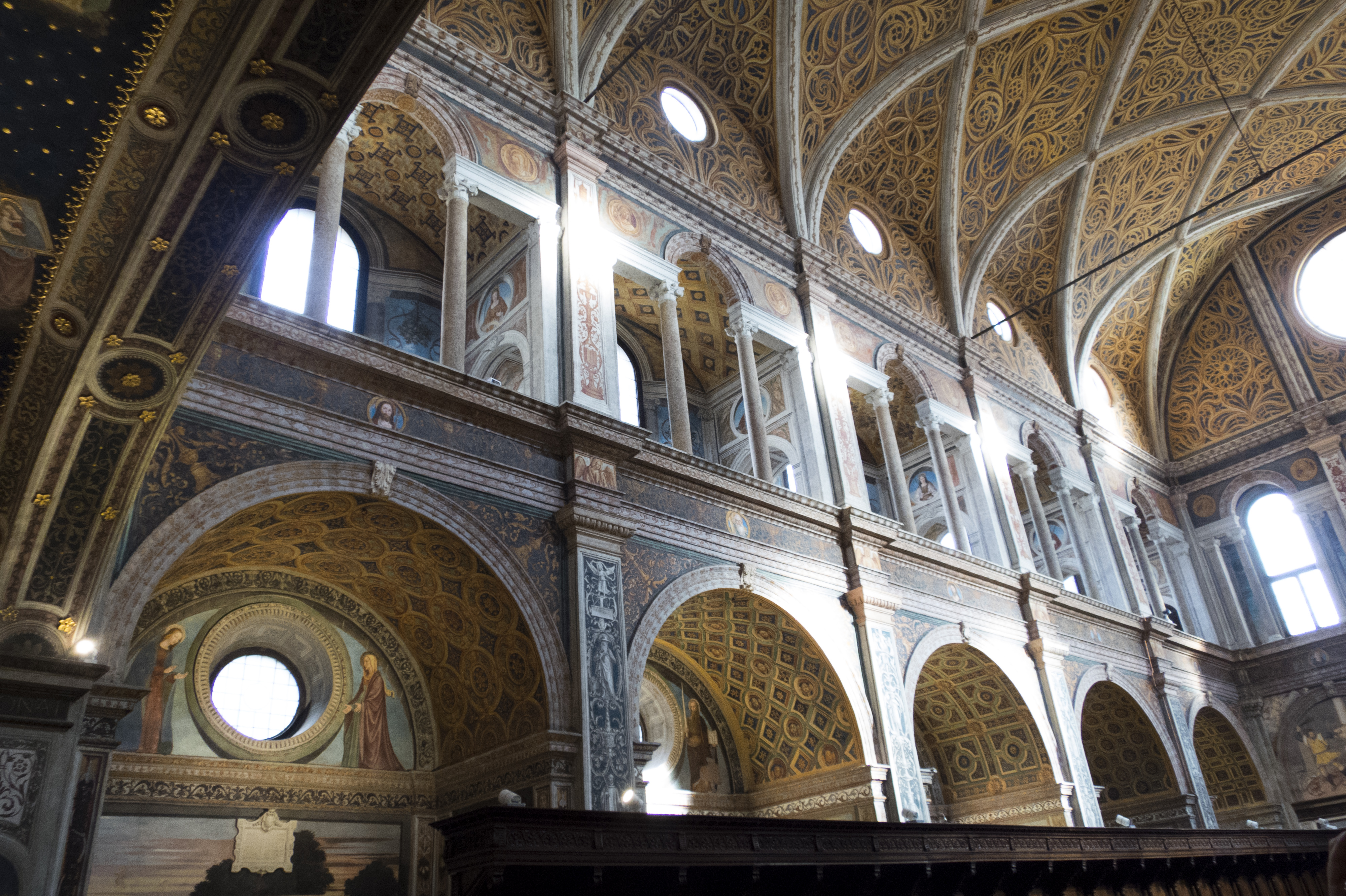 San Maurizio al Monastero Milano